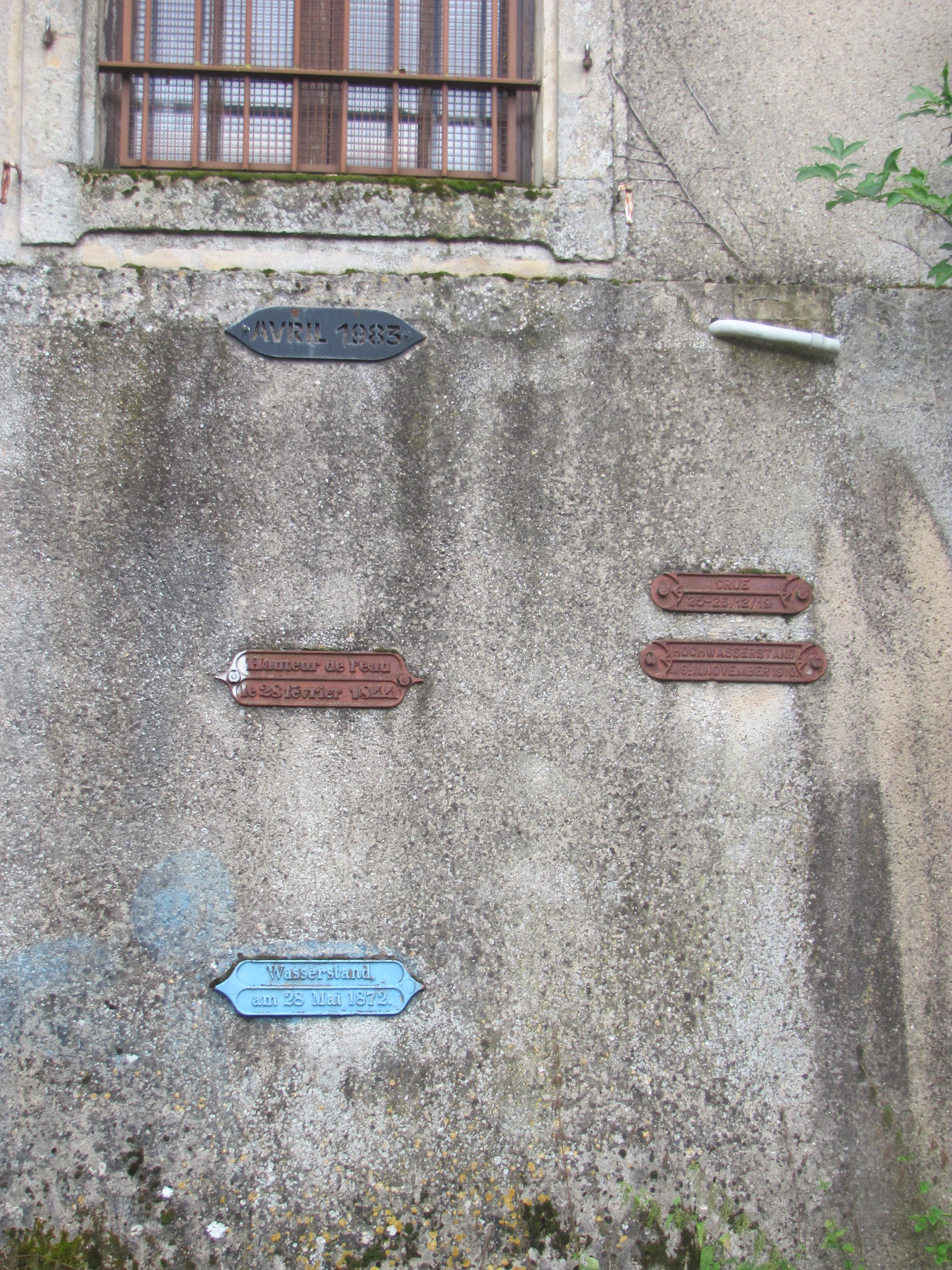 waterstanden Moezel op oude poort